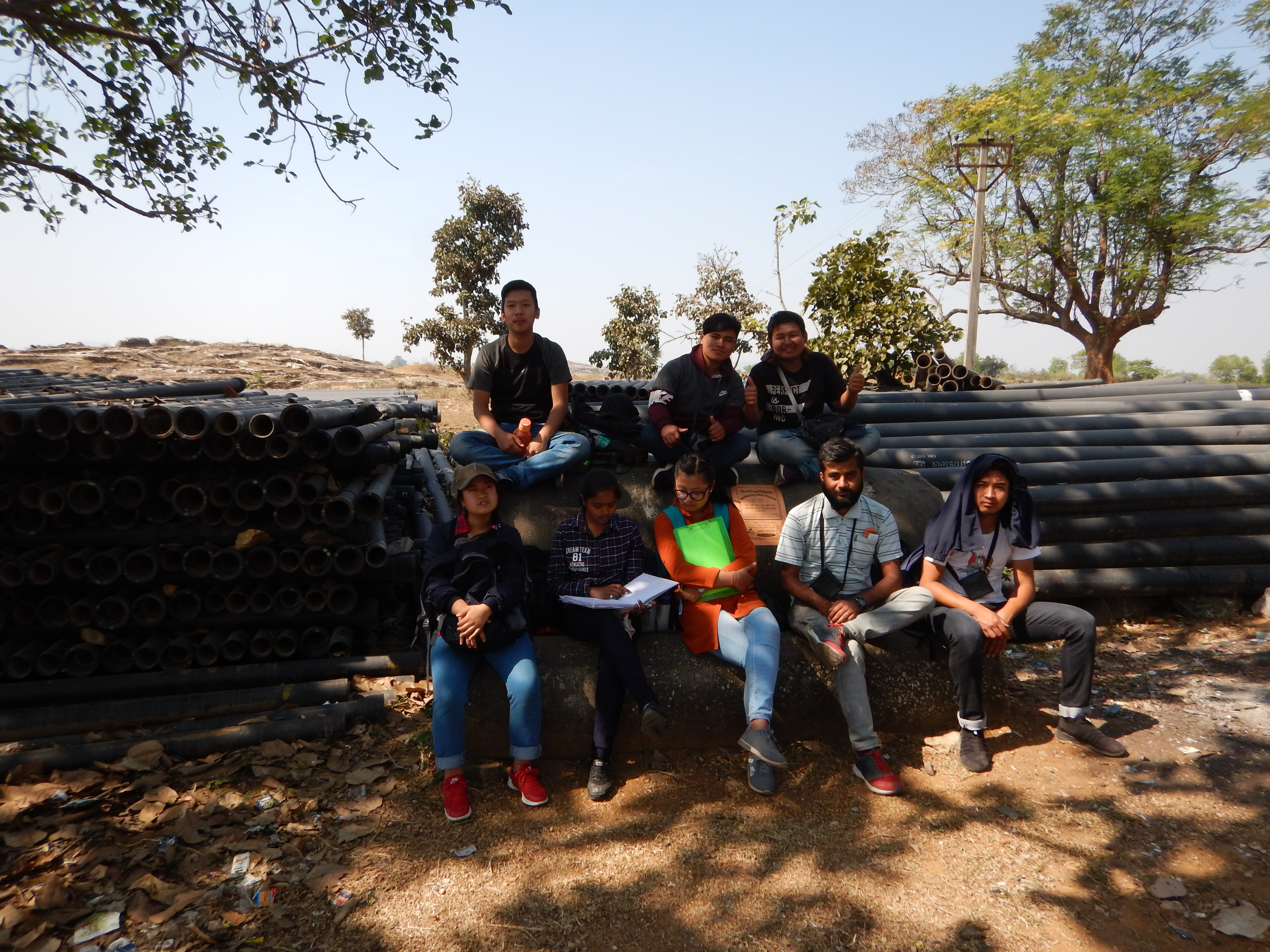 Fieldwork in Purulia during year 2019